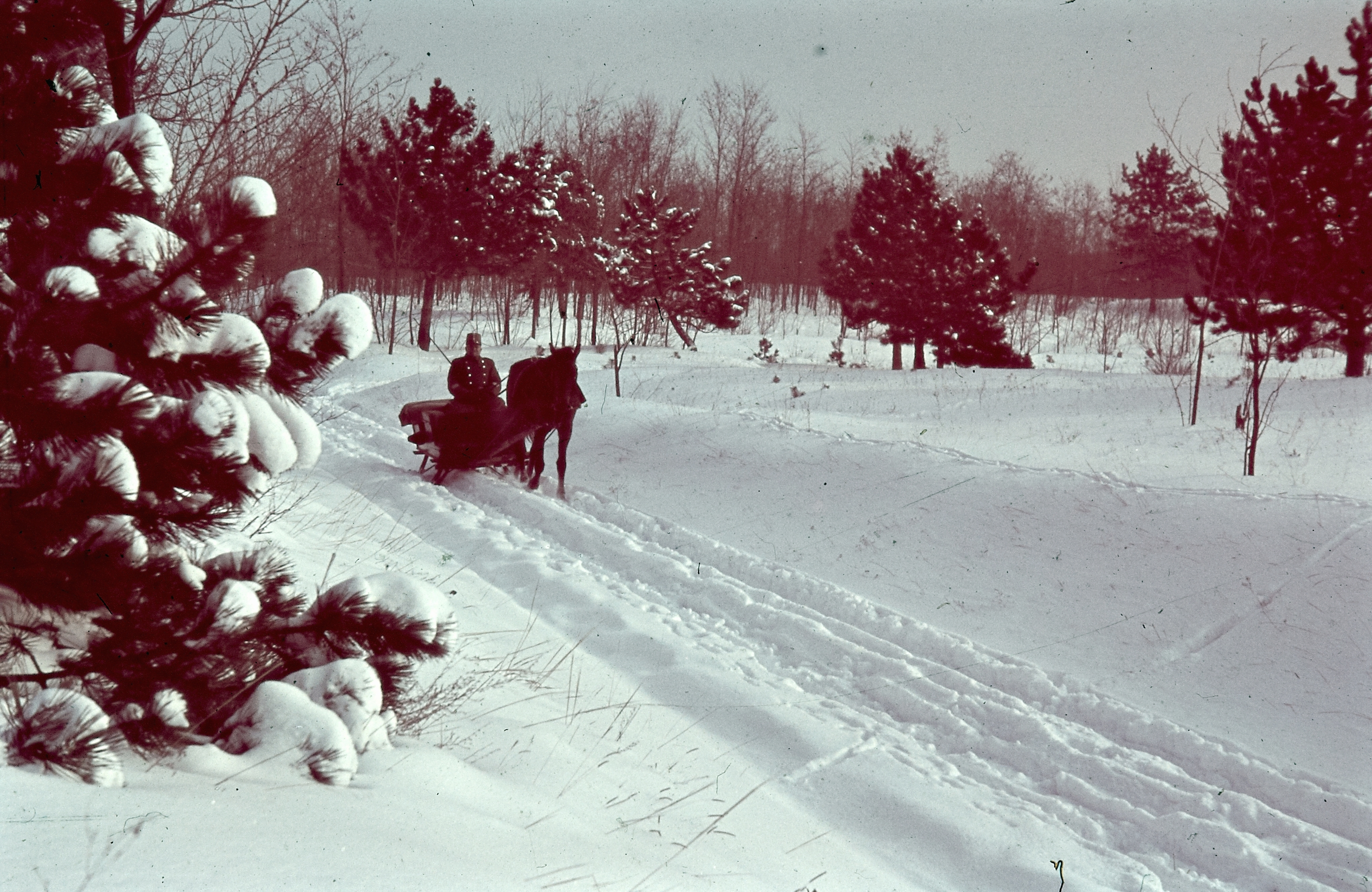 Tags: winter, horse, sleigh, teamster